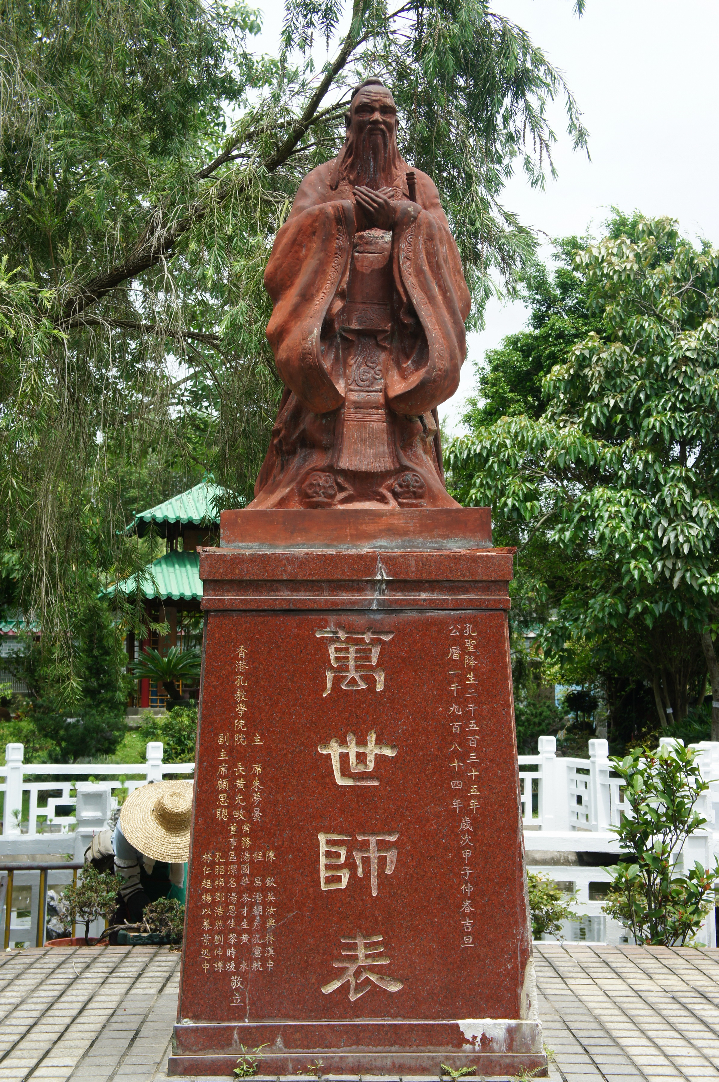 The Confucius statue in Wun Chuen Sin Kwoon, Ta Kwu Ling, New Territories, Hong Kong.